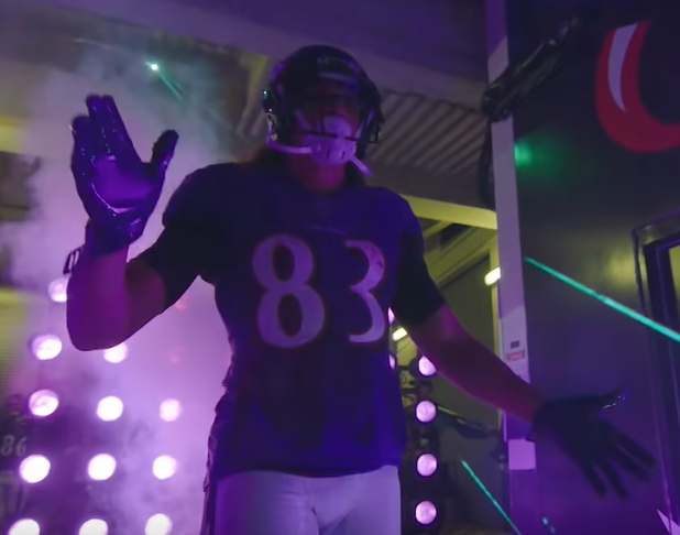 Willie Snead in 2020. Image from video Titans Mic'd Up vs. Ravens (AFC Divisional Round) | Sounds of the Game, ~ 01:02.